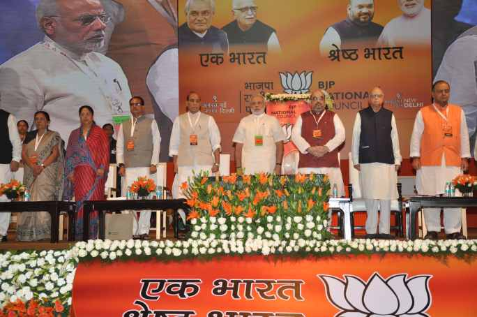 PM Shri Narendra Modi addresses BJP National Council Meet